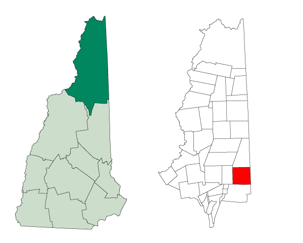 Map of a municipality in Coos County, New Hampshire